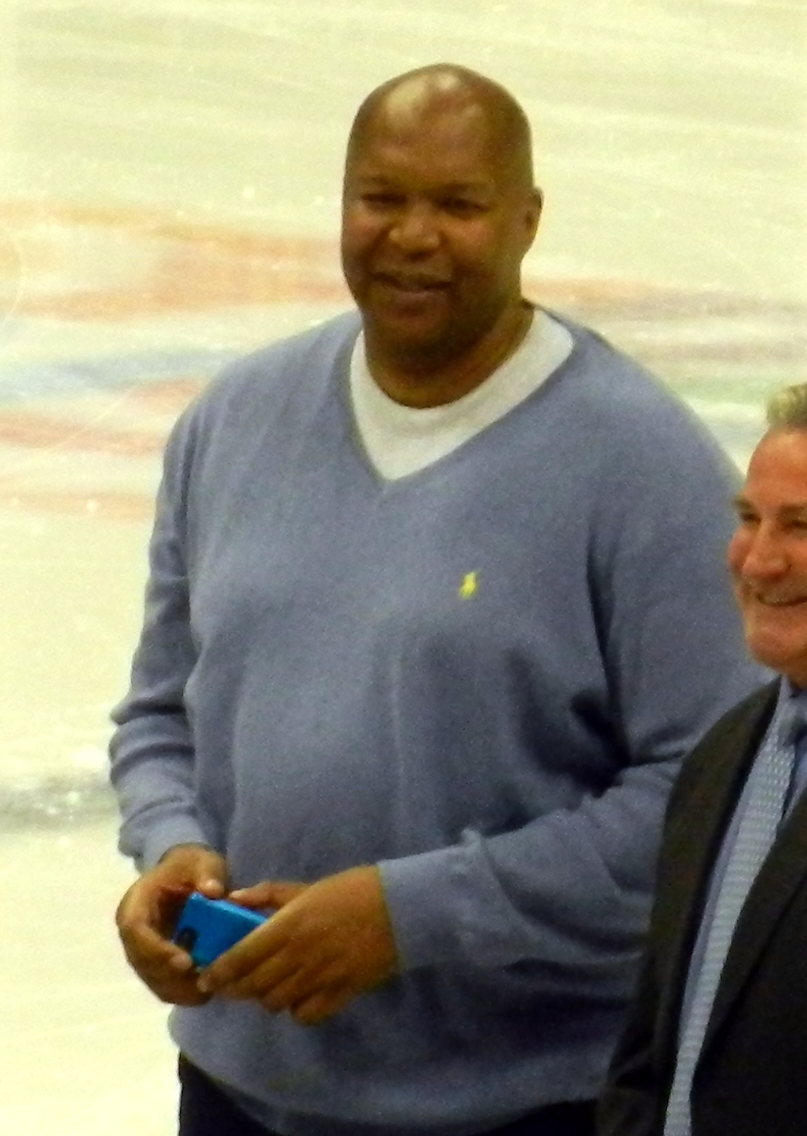 Derrick Coleman in 2014 before performing the ceremonial puck drop at the Frozen Dome Classic